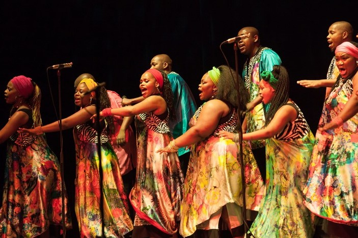 The Soweto Gospel Choir performed on 7 December in a Gala Concert in Graz, Austria around the 'Voices of Spirit' Choir festival.